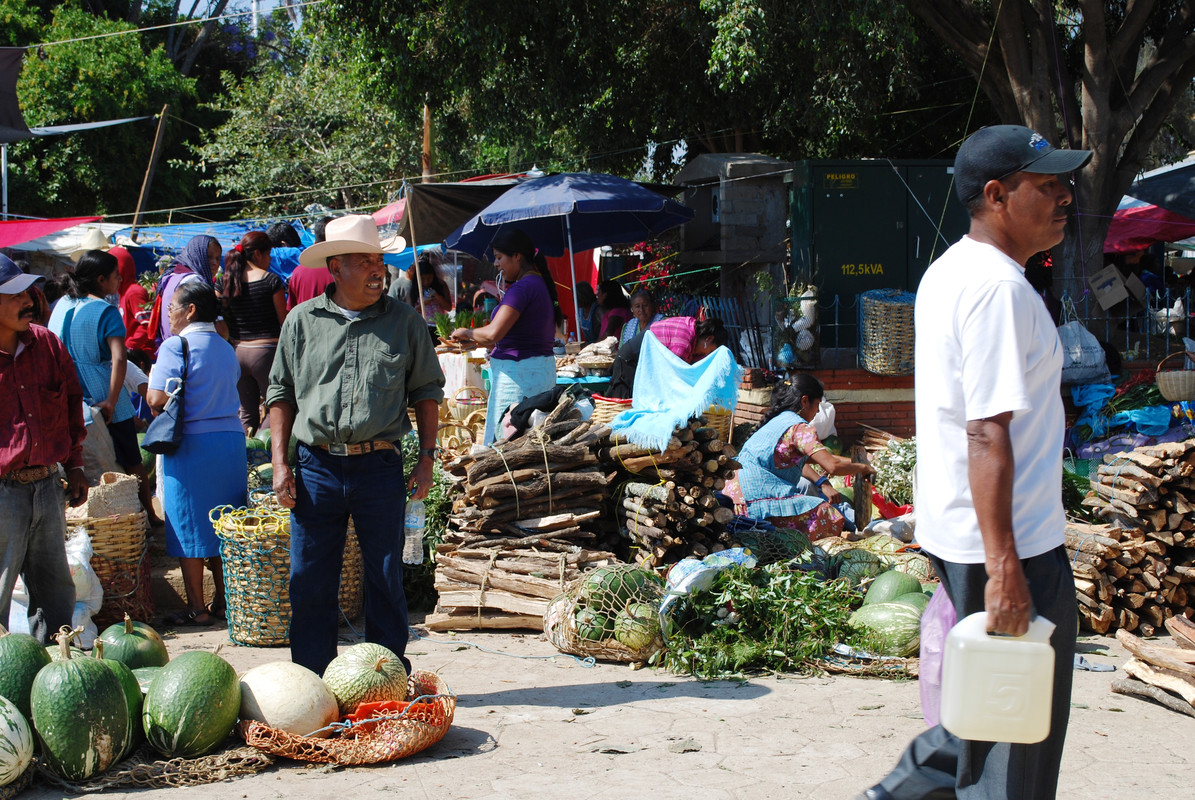 Firewood market section of the Thursday weekly market in Zaachila, Oaxaca, Mexico